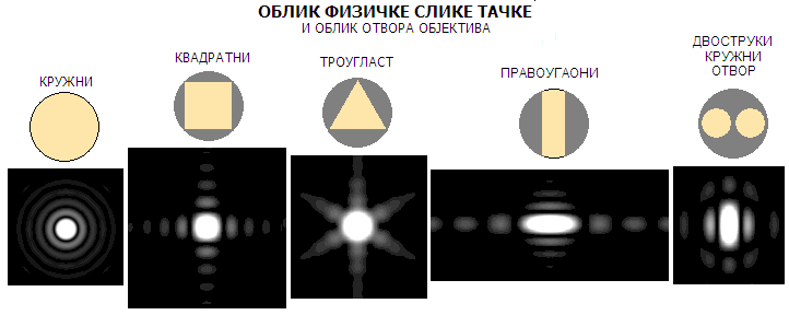 ЗАВИСНОСТ ОБЛИКА ФИЗИЧКЕ СЛИКЕ ТАЧКЕ ОД ОБЛИКА ОТВОРА ОБЈЕКТИВА